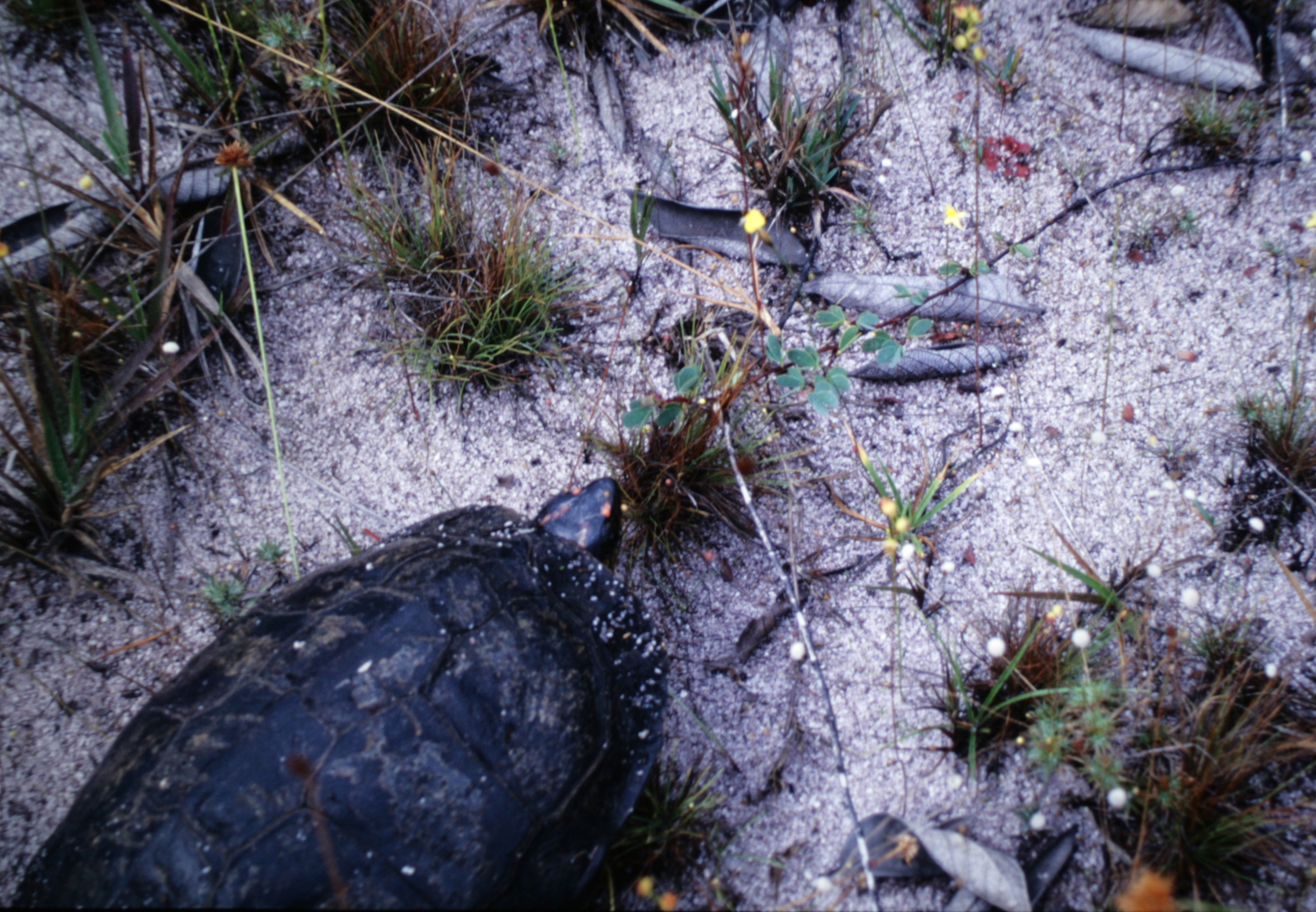 Geochelone carbonaria. Photo: habitat, white sand savanna near Jodensavanne, Suriname. The smalle yellow flower is an Utricularia spec.